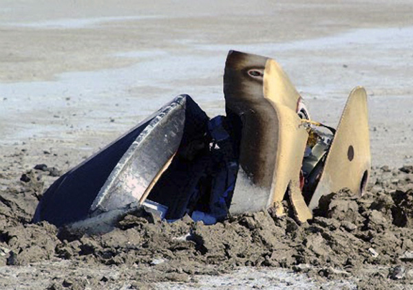 Closeup of Genesis Capsule Shortly After Return